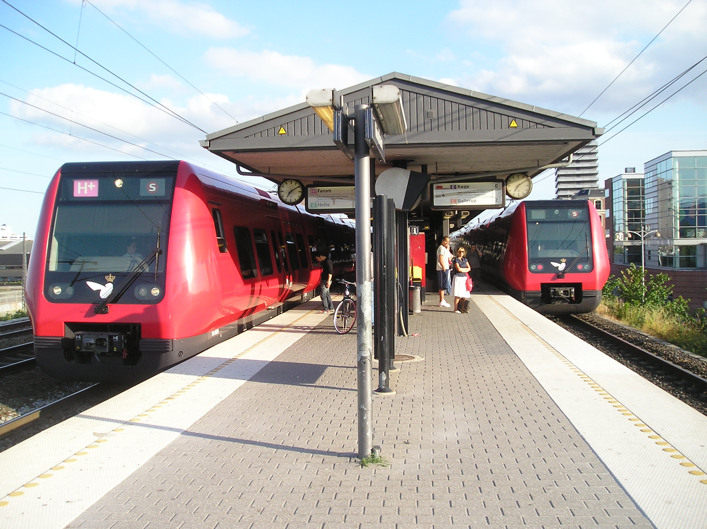 4th generation S-train SA 99 on line H+ and SA 102 on line E at Nordhavn Station in Copenhagen.